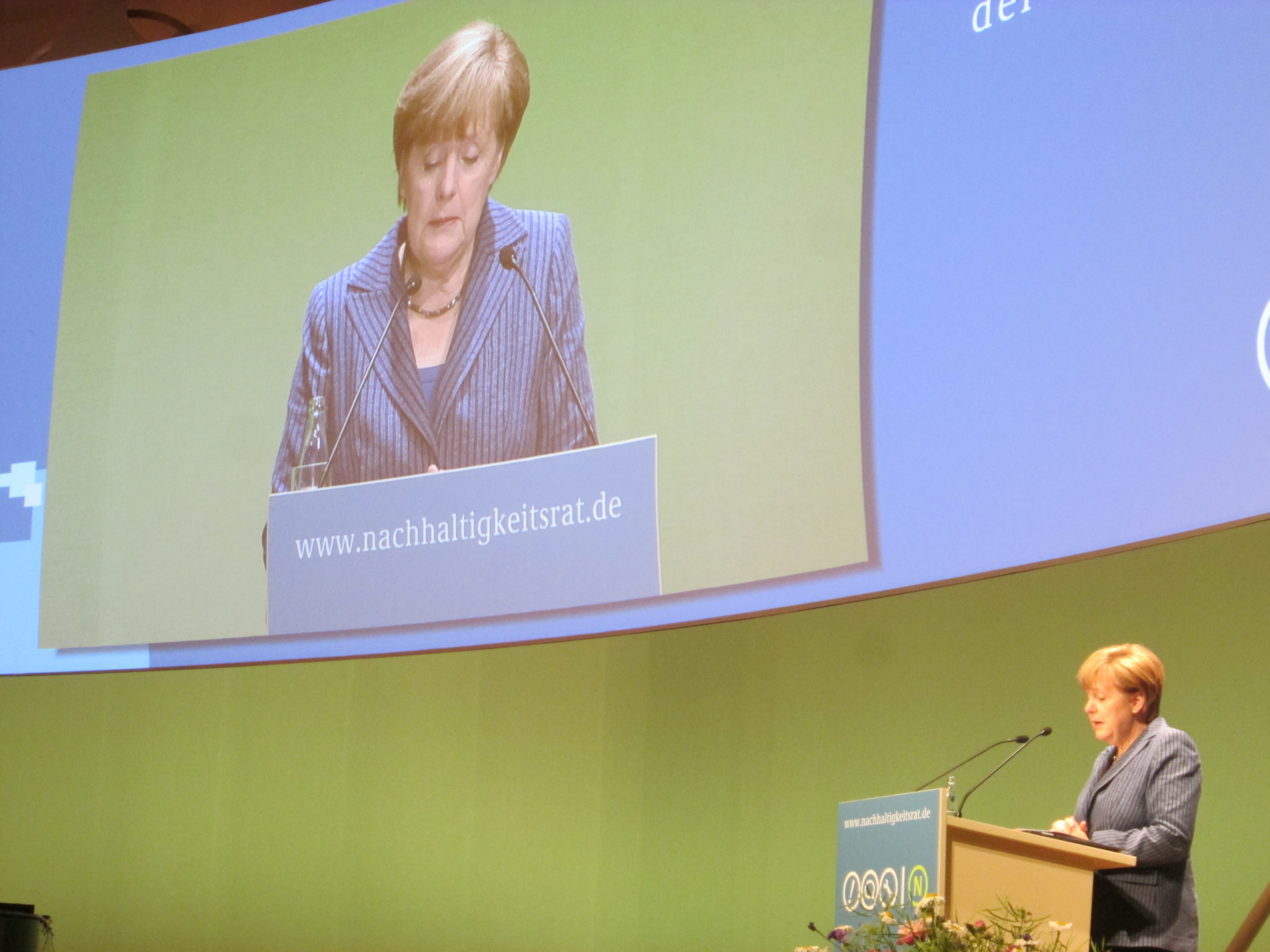 Berlin Congress Council Sustainability, Chancellor Angela Merkel